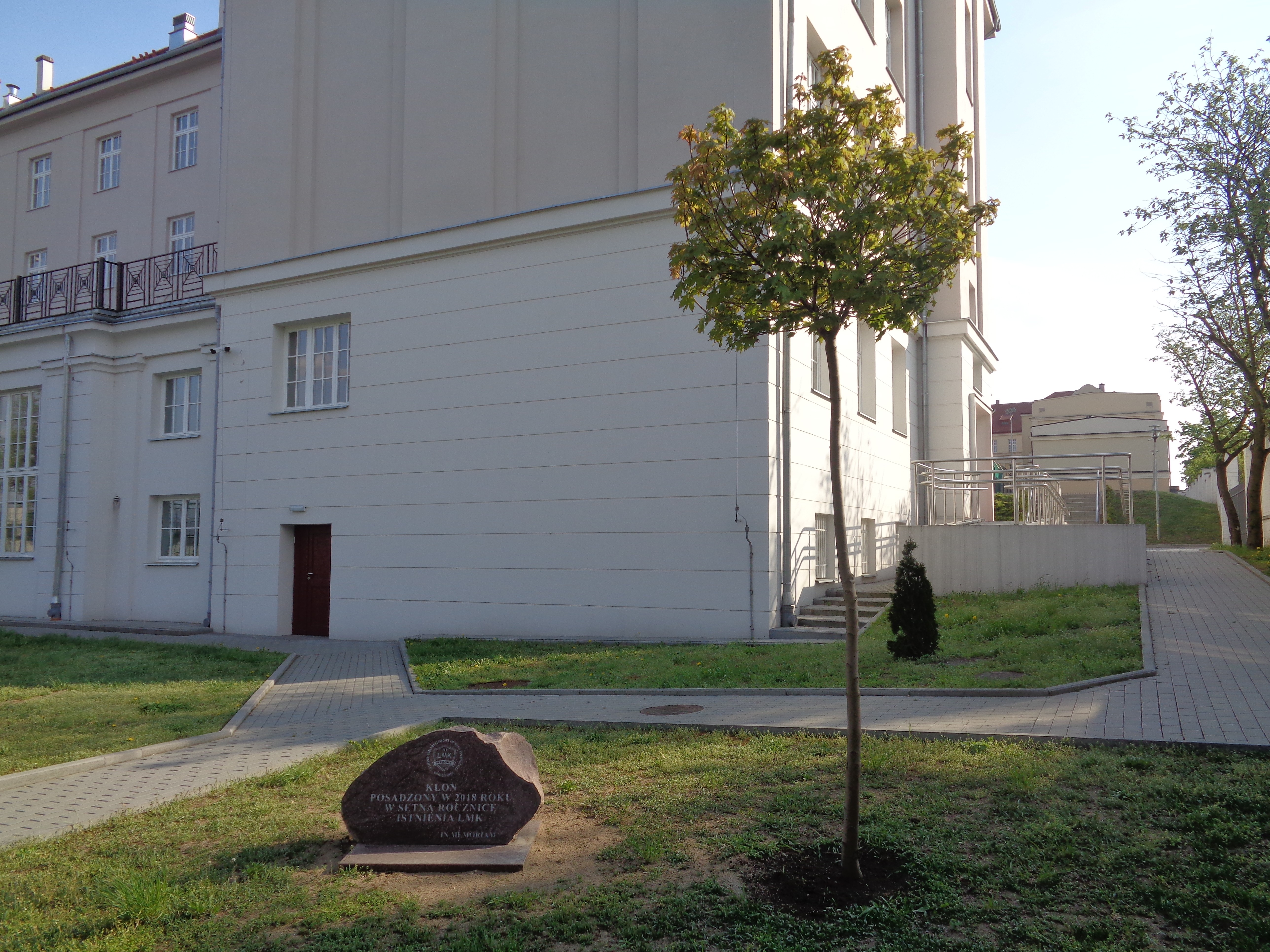 Maple set in 100th anniversary of existing of Maria Konopnicka High School in Włocławek, on the yard of school. Next to it, there is a stone memorizing set of tis maple.